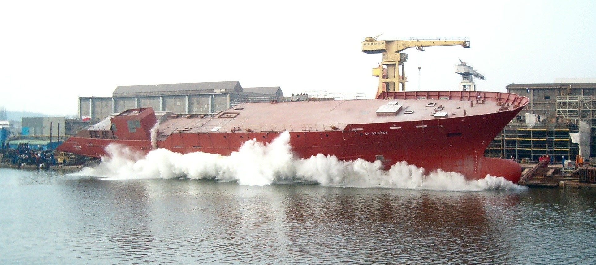 Hull launching in Northern Shipyard in Gdansk, Poland